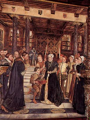 Margaretha van Parma receives the keys of the city of Antwerpen